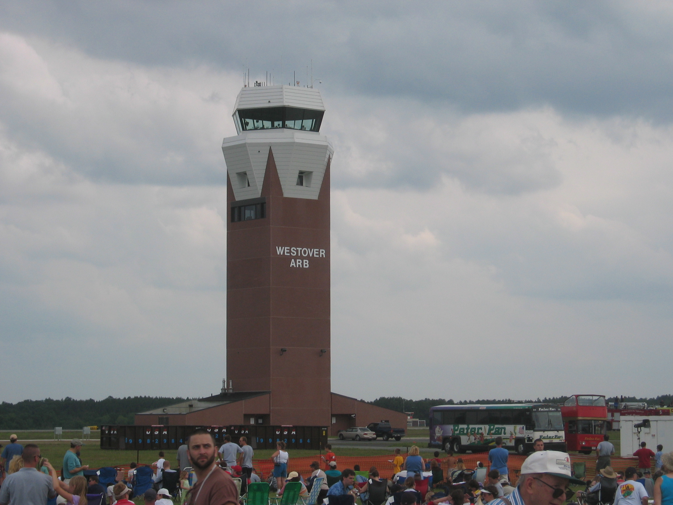 The air traffic control tower at Westover Air Reserve Base during the 2004 Great New England Airshow.